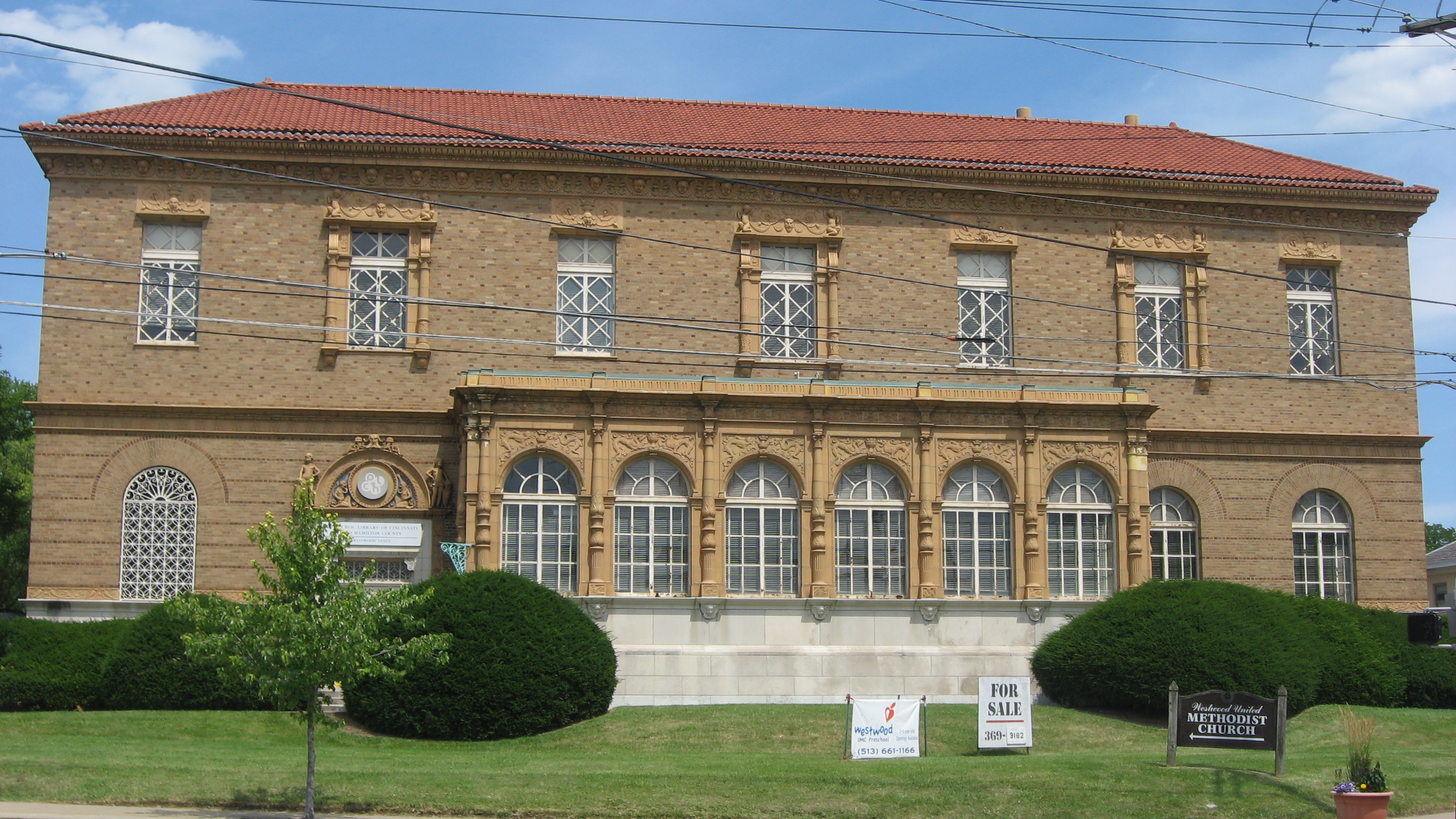 Front of the former Cincinnati Bell Building, located at the junction of Epworth, Harrison, and Urwiler Avenues in the Westwood neighborhood of Cincinnati, Ohio, United States. Built in 1889, it is part of a historic district, the Westwood Town Center Historic District, that is listed on the National Register of Historic Places.